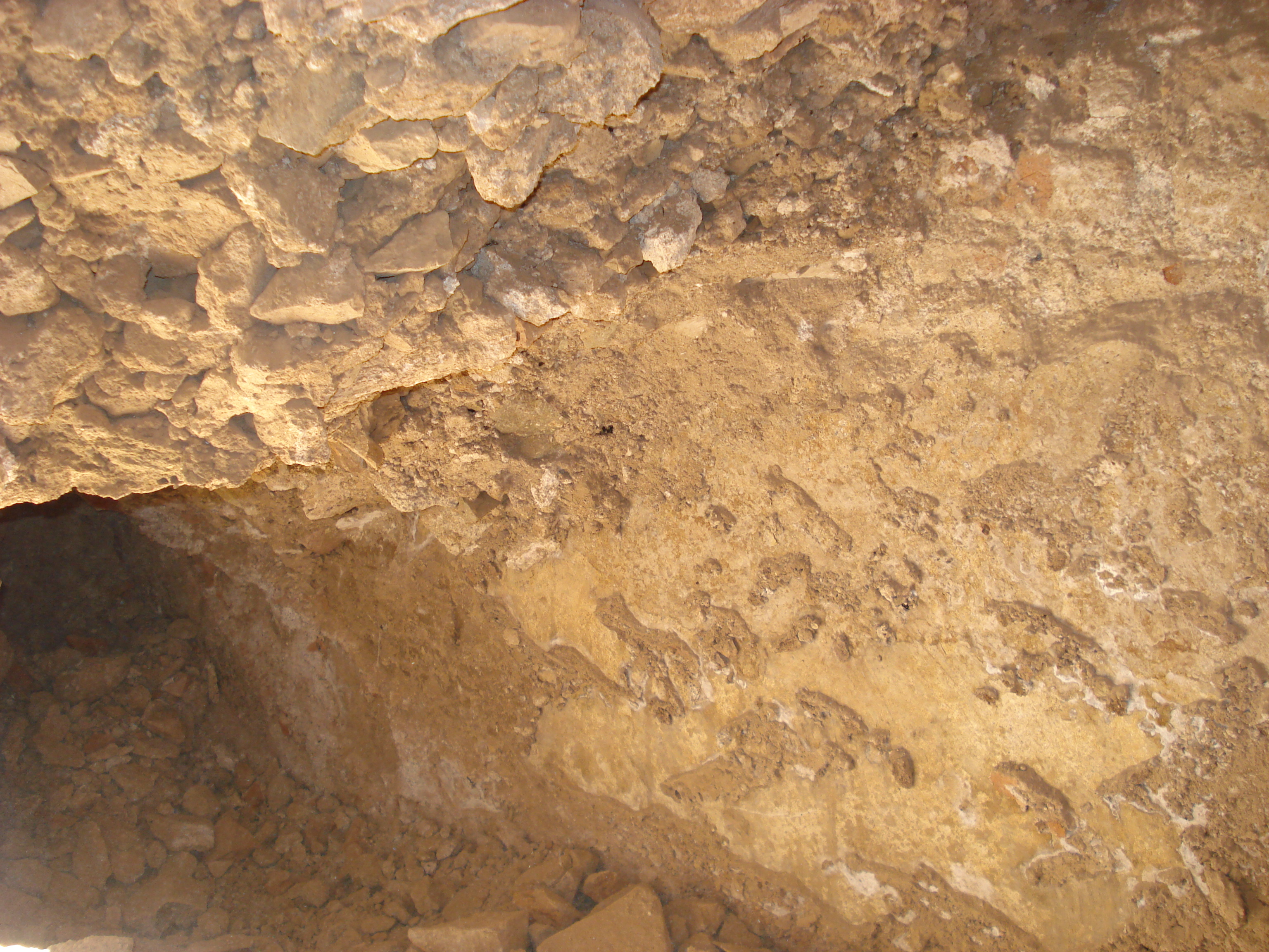 One of the chambers discovered by thieves under the castle Zibad.shah neshin